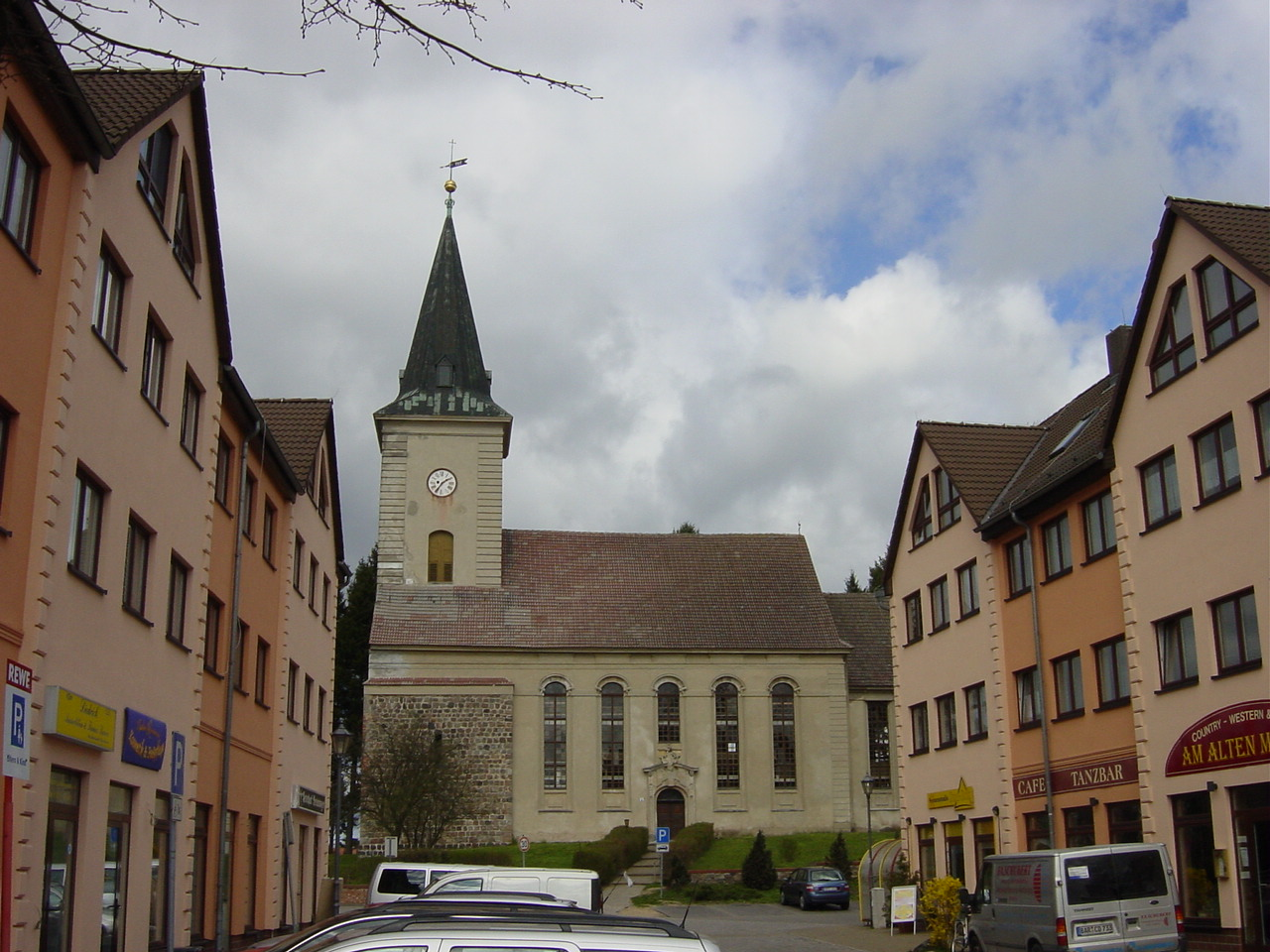 The protestant town-parish-church, erected 1764-67 including the fieldstone-walls of a former building from the 13. century, the top of the tower from 1858/59, from south